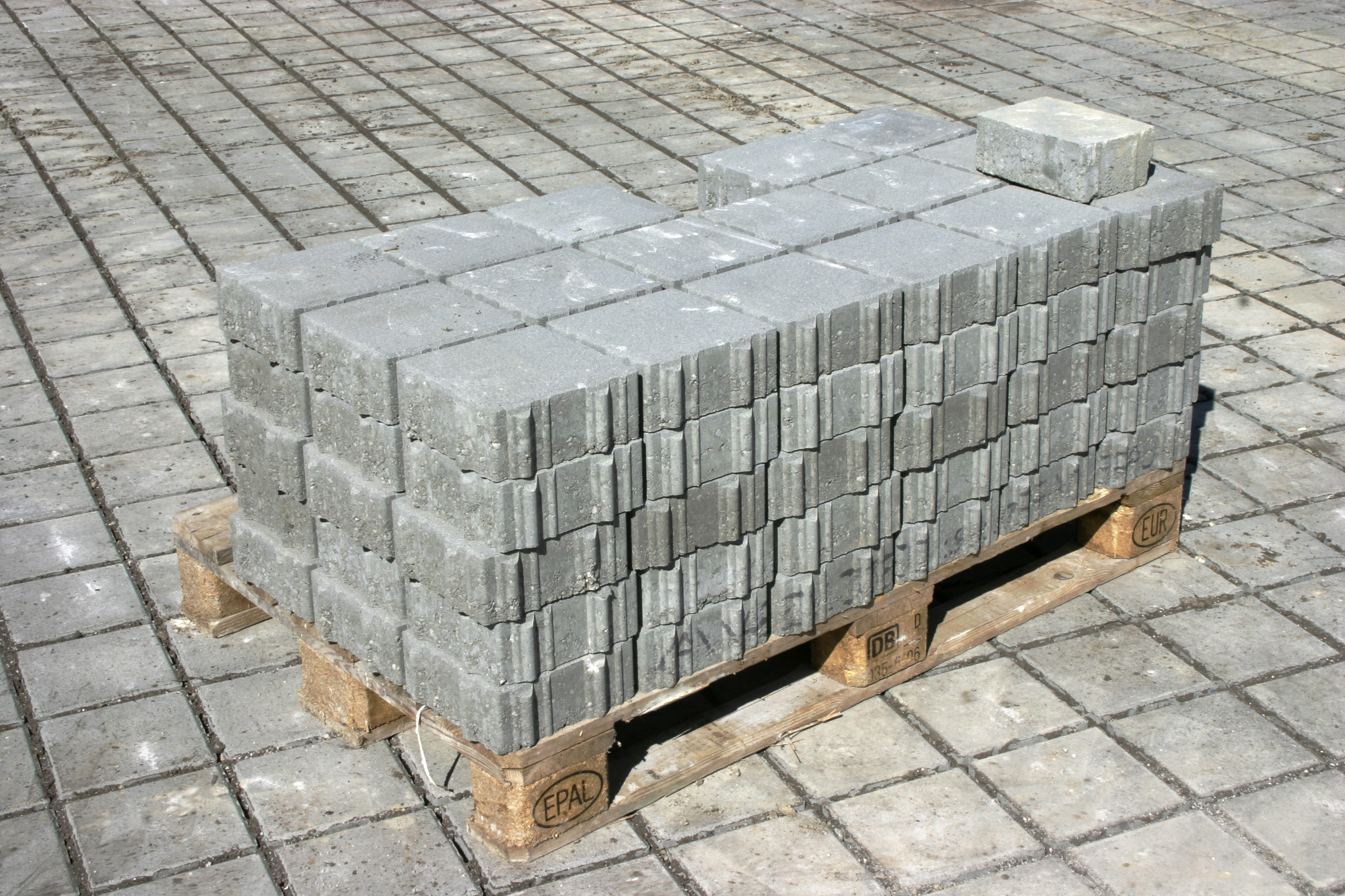 Concrete interlocking paving stones